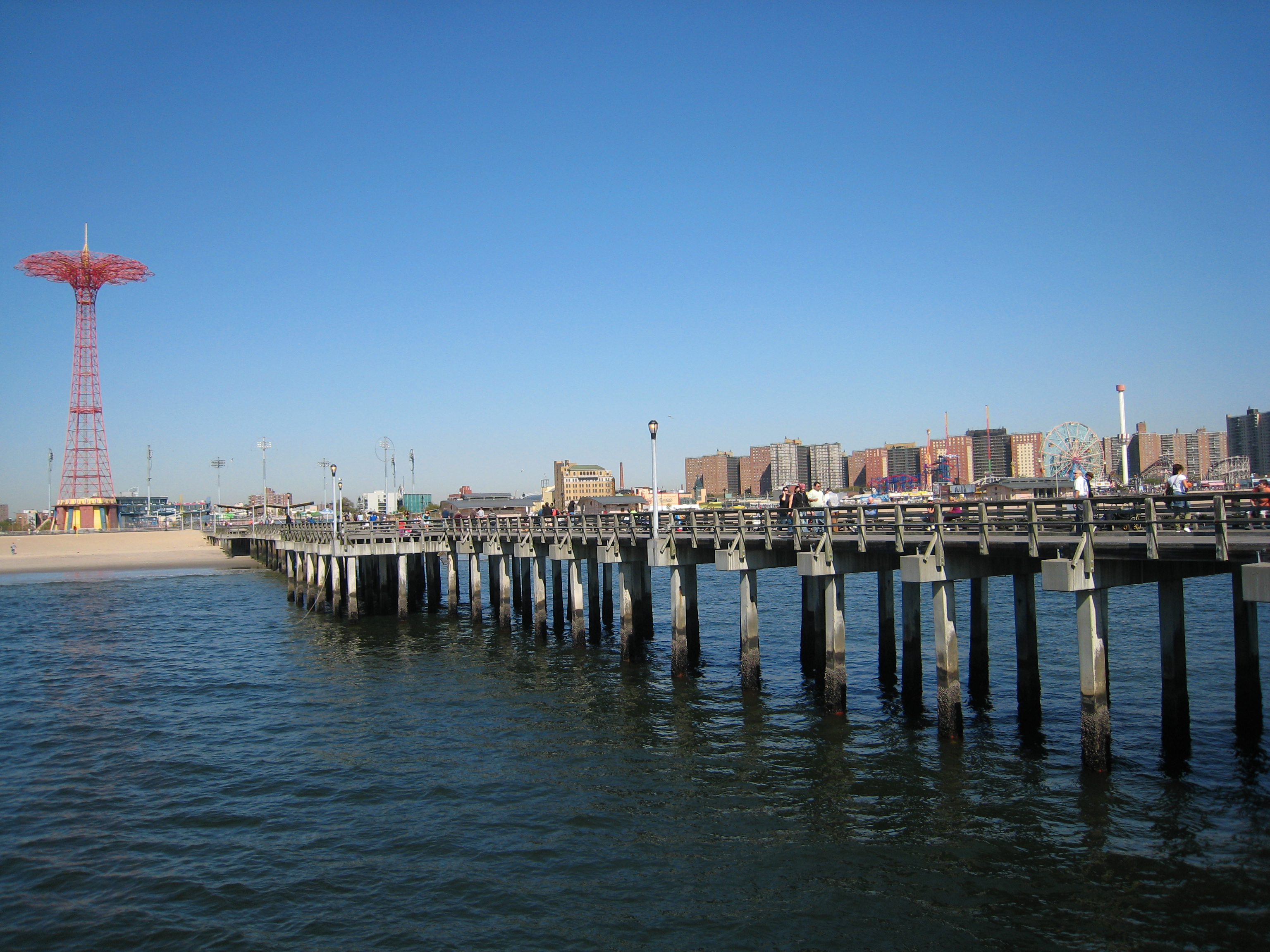 Coney Island, New York